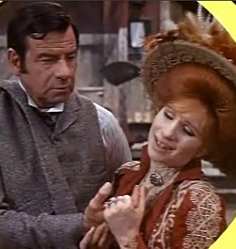 Screenshot of Walter Matthau and Barbra Streisand from the trailer for the film Hello, Dolly! (film)